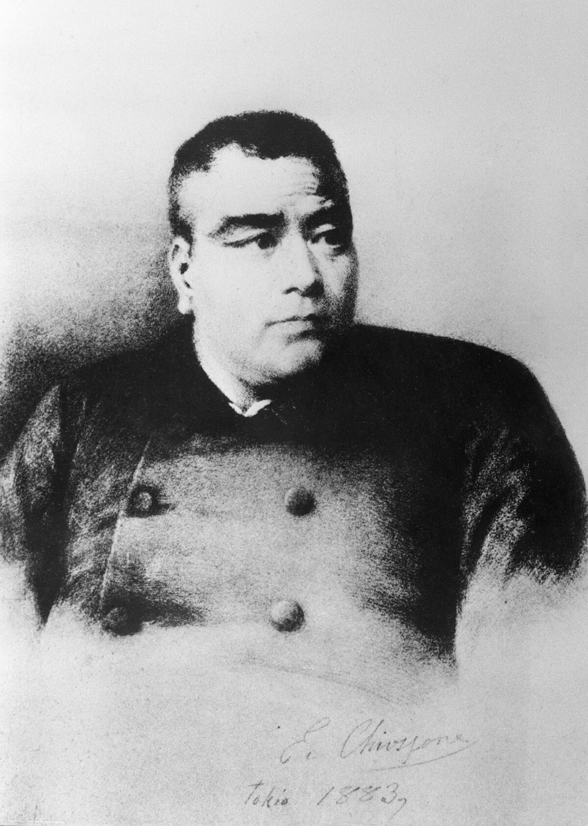 A conte of Saigo Takamori, the assumed author is Edoardo Chiossone. However, it is claimed that Chiossone hadn't ever met Saigo.